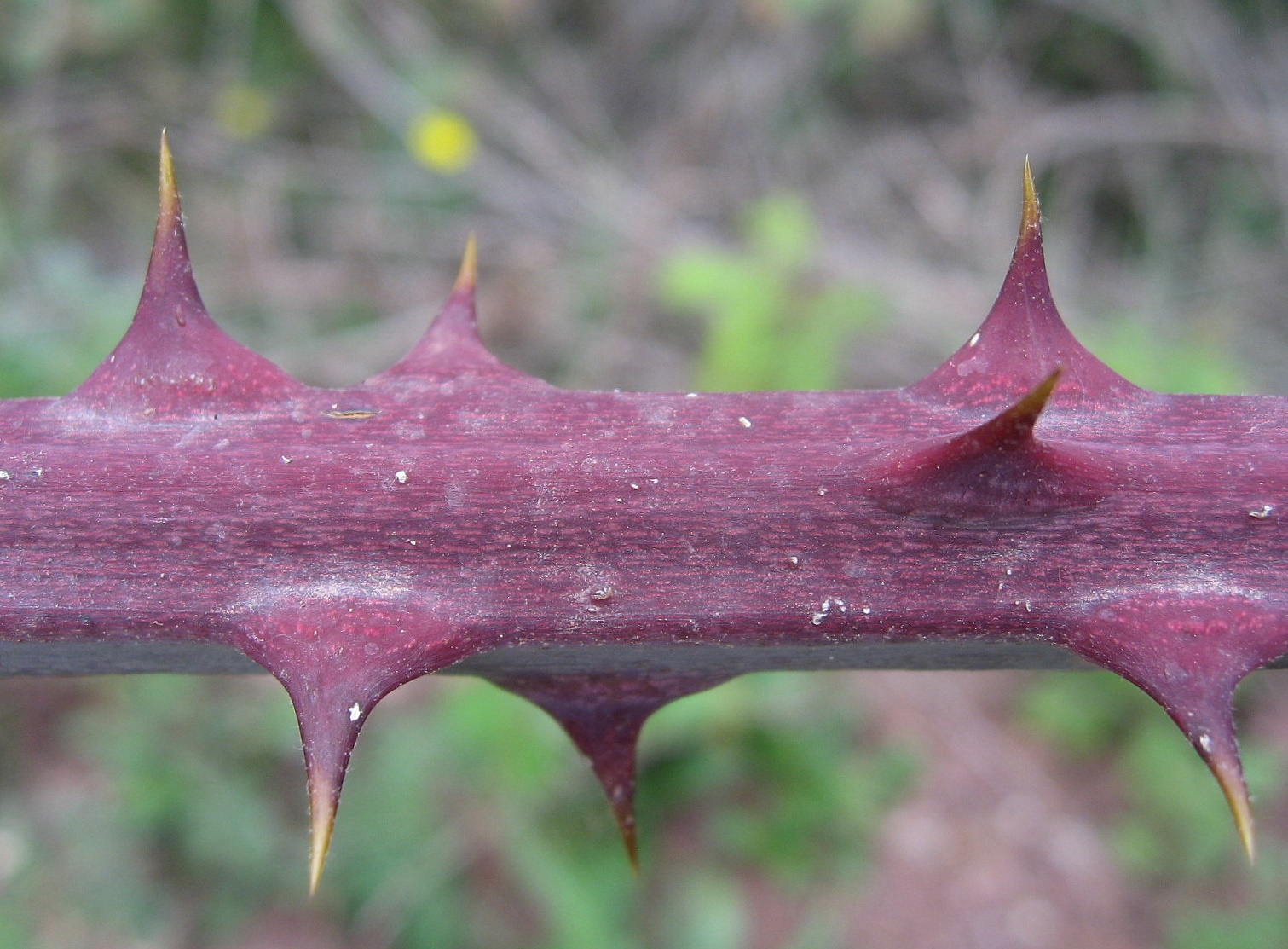 Prickles of Rubus ulmifolius